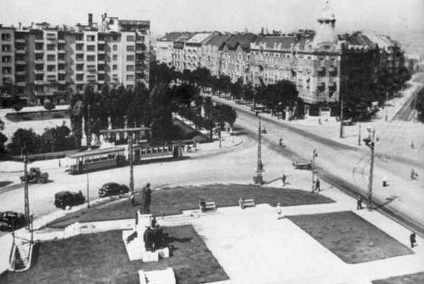 Miklós Horthy Square